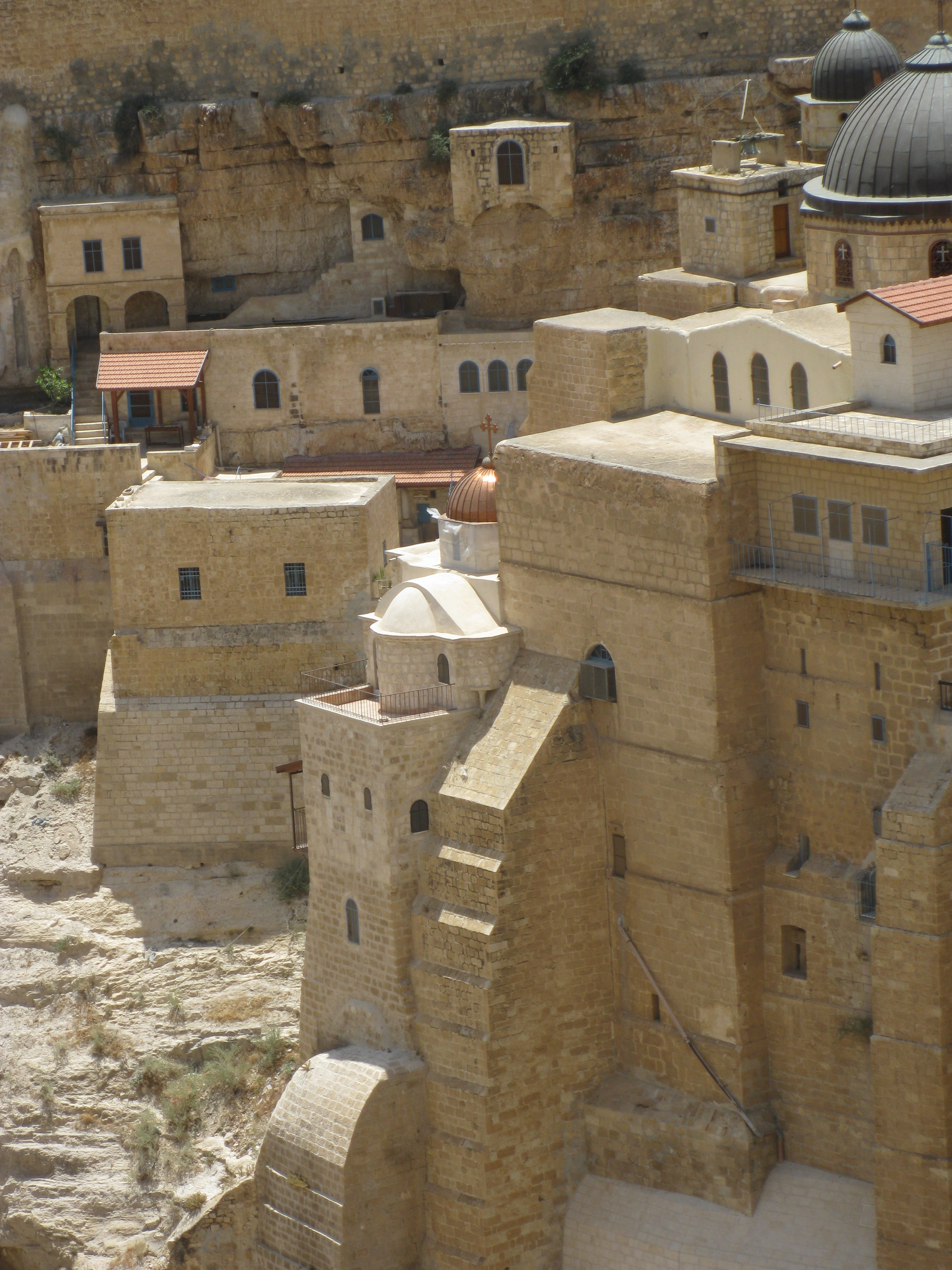 Mar Saba Monestary